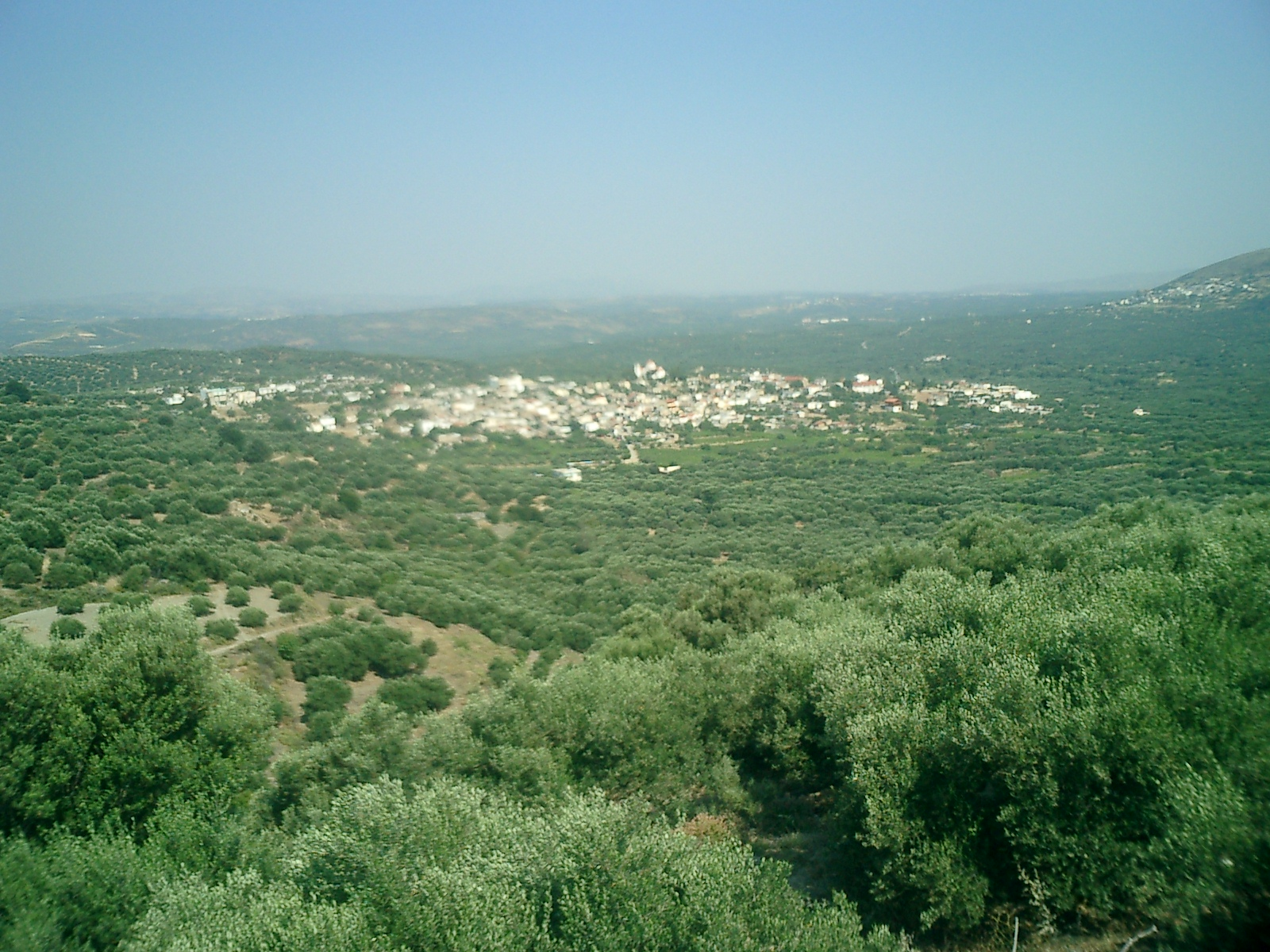 Crete, Greece